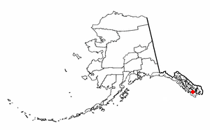 Adapted from Wikipedia's AK borough maps by Seth Ilys.